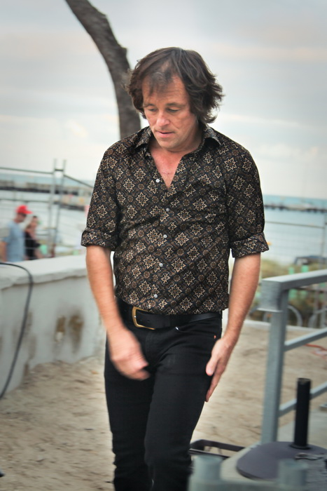 Brad Shepherd after the 30th birthday concert at Rottnest Island in April 2012